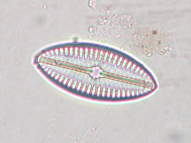 This work is free and may be used by anyone for any purpose. If you wish to use this content, you do not need to request permission as long as you follow any licensing requirements mentioned on this page.